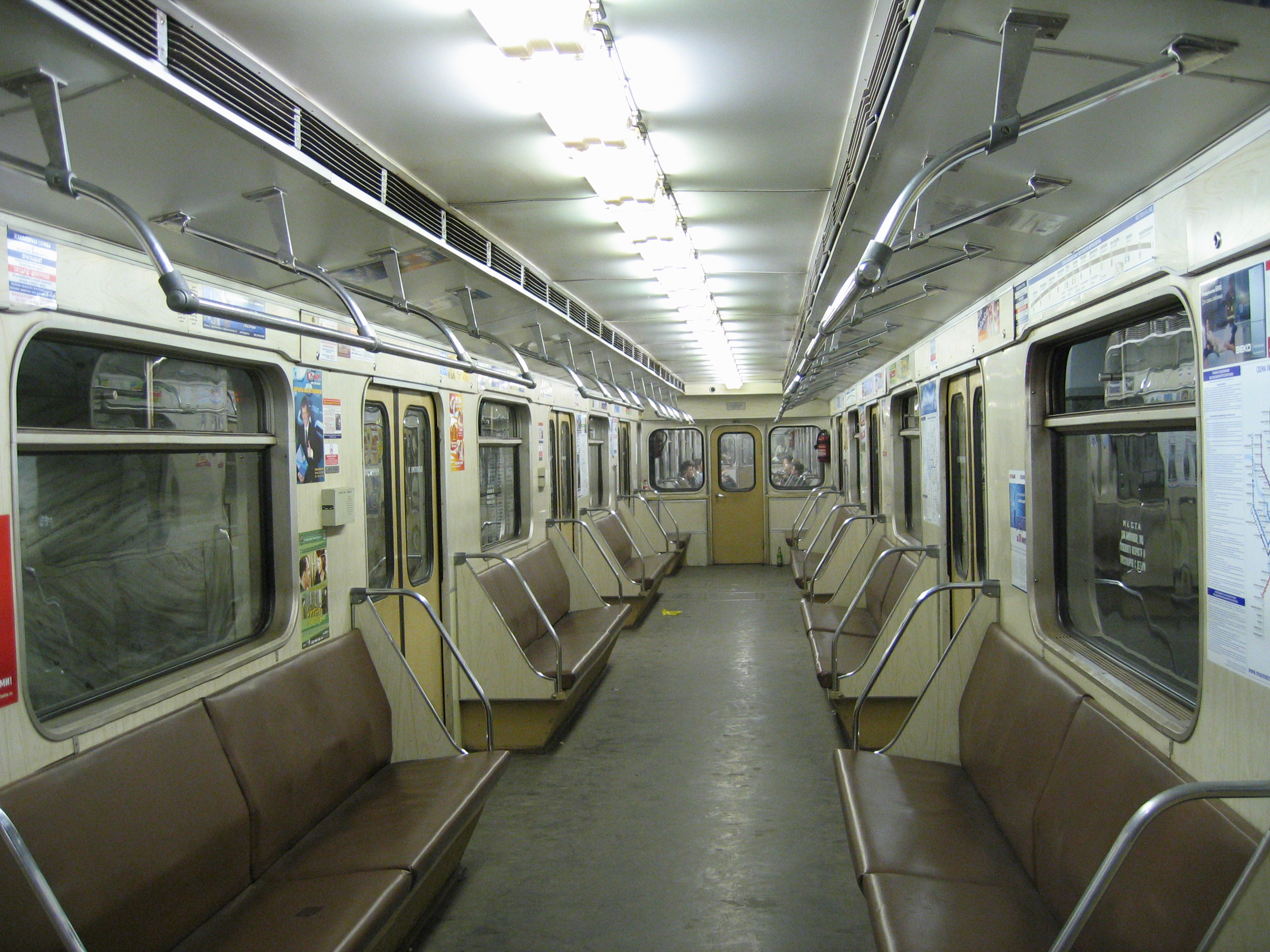 Train 81-717/714, view inside